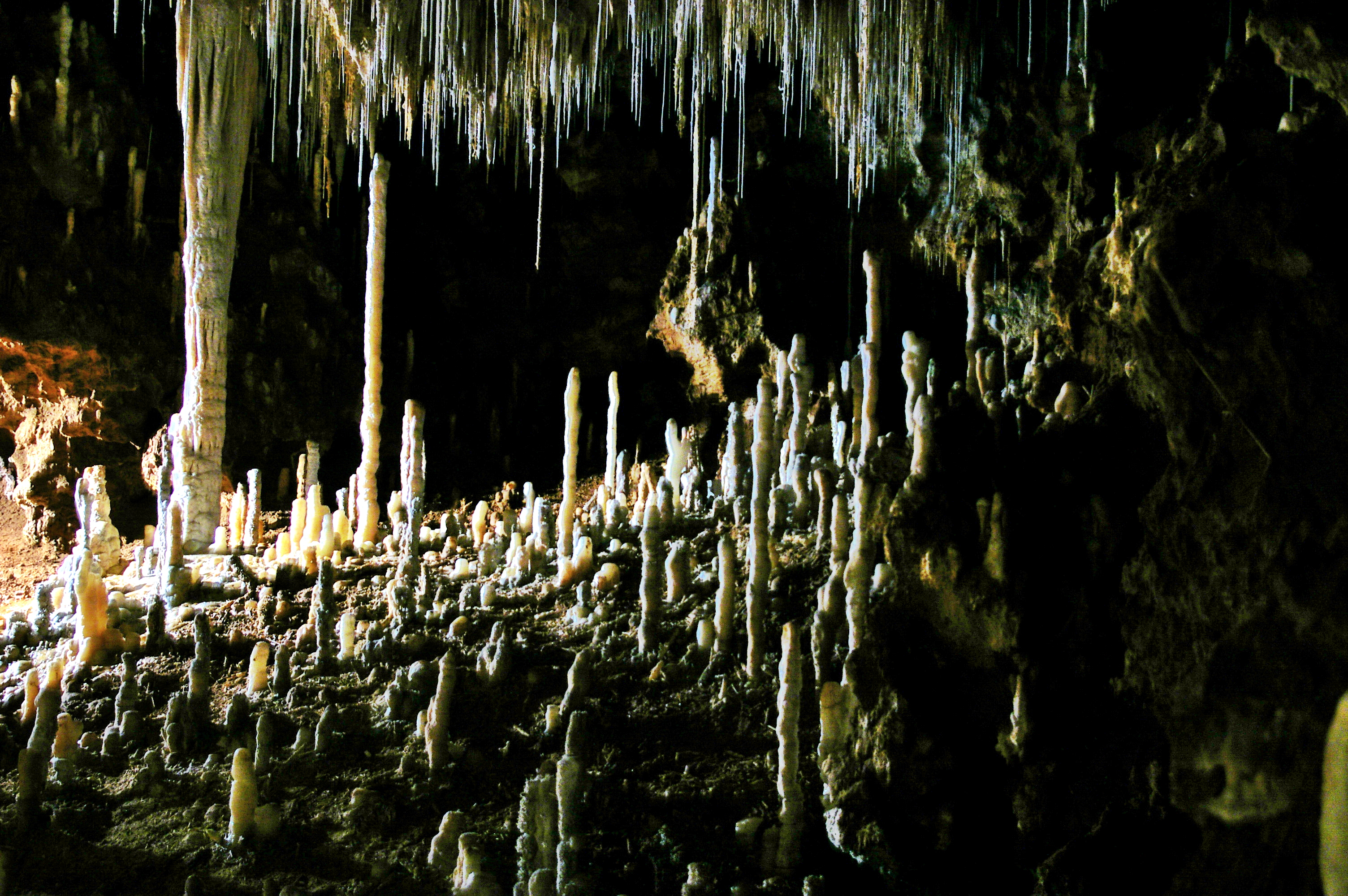 The cemetary, one of the most beautiful roof of fistulas in france